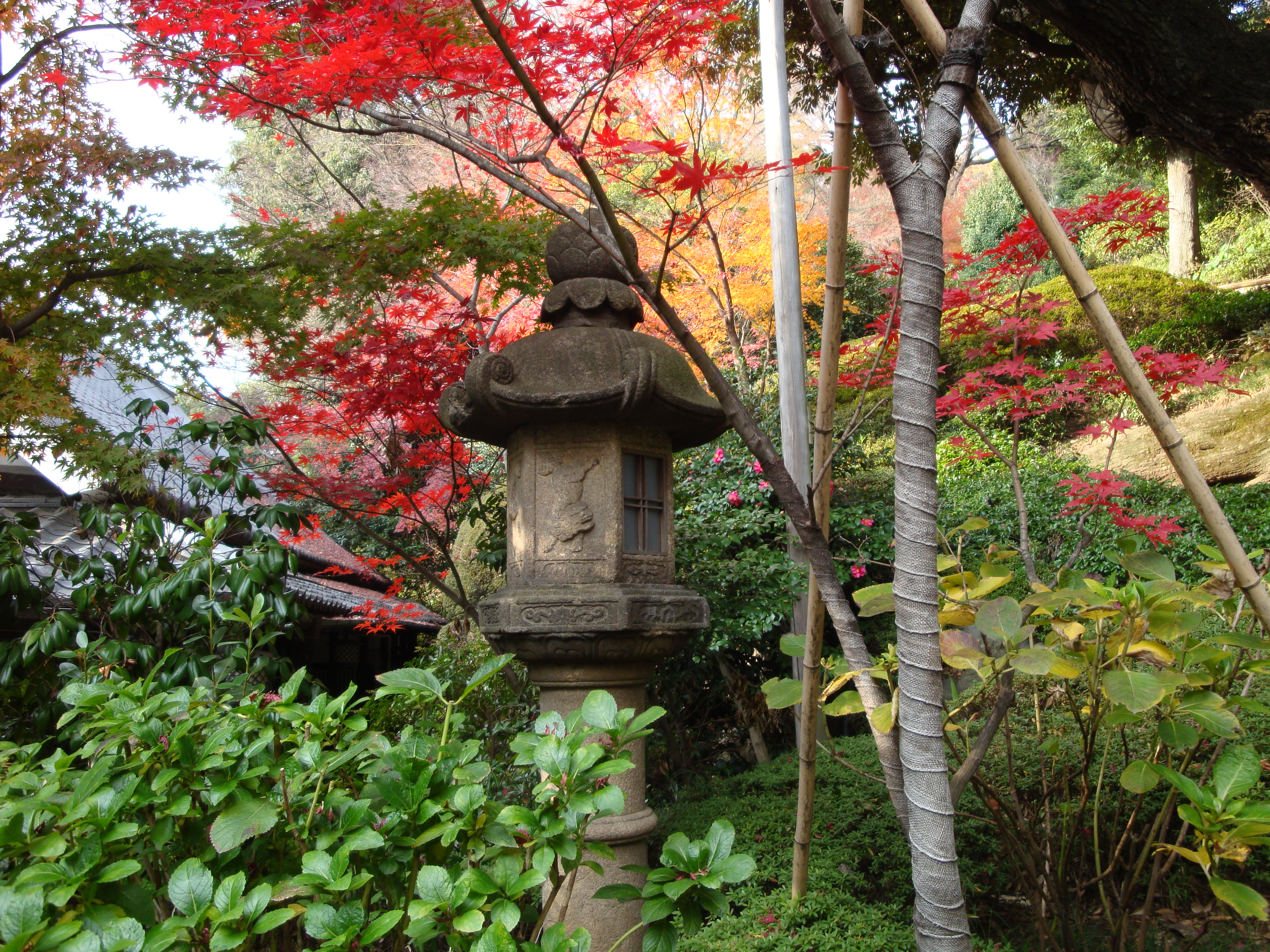 Chinzan-so Garden, Tokyo, Japan